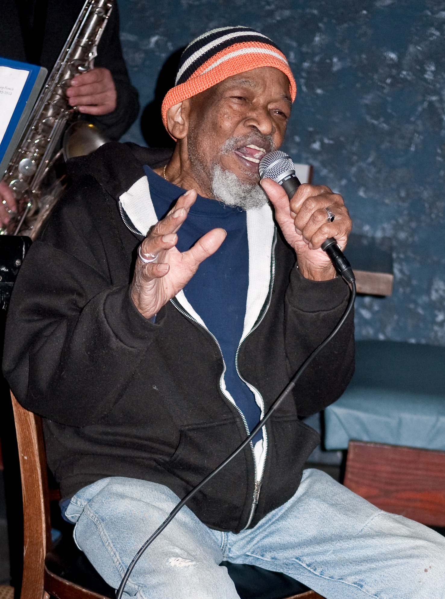 Jimmy Norman sings at the P&G Bar with Jonny Rosch's band on Dec. 1, 2009. Photo by Frank Beacham (